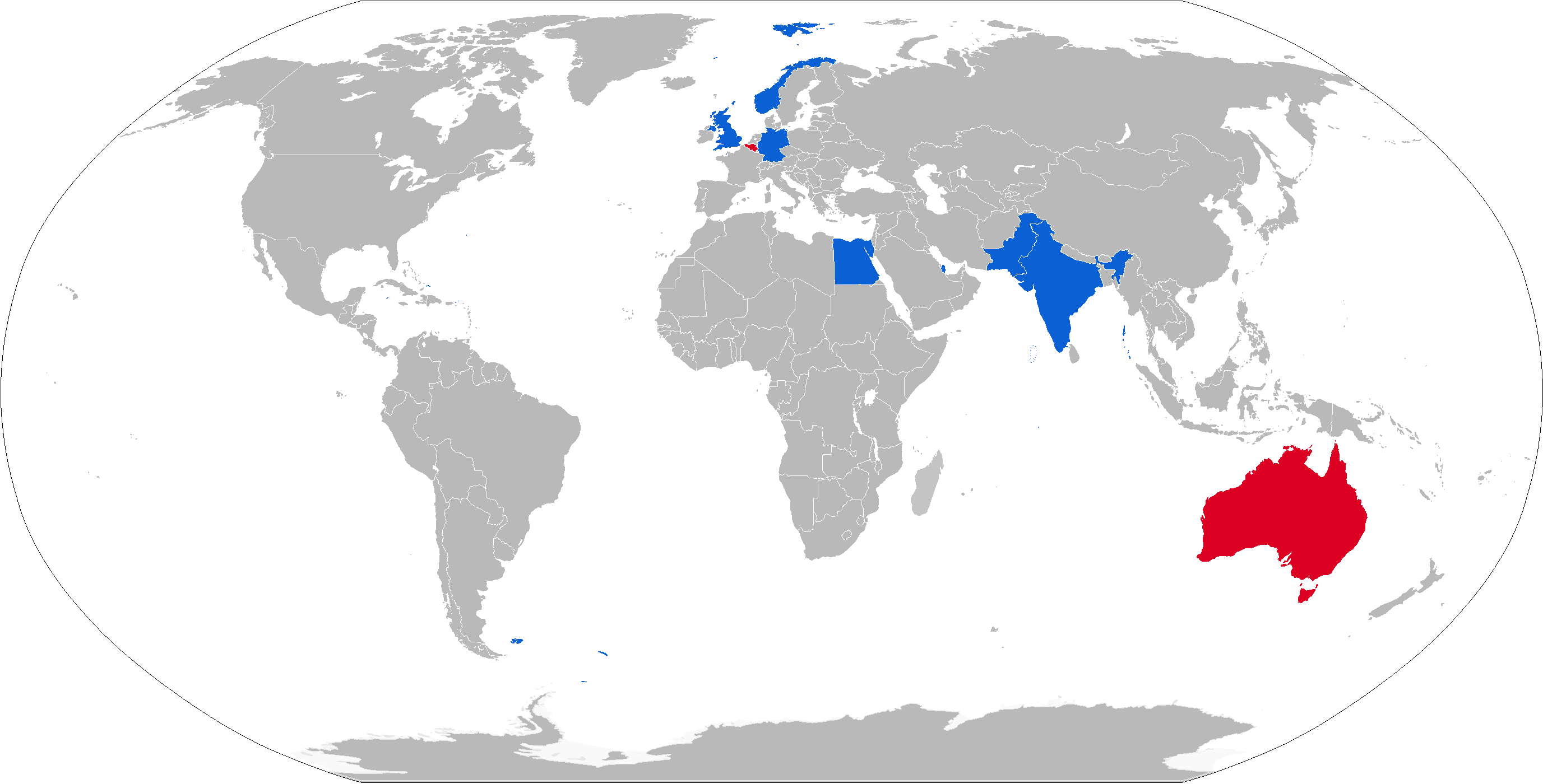 Map of military Westland Sea King operators in blue with former operators in red